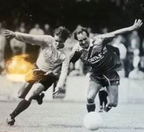 The photo selected as the Photo of the Year by Jülicher Nachrichten in 1992. The player on right is Wolfgang Overath.